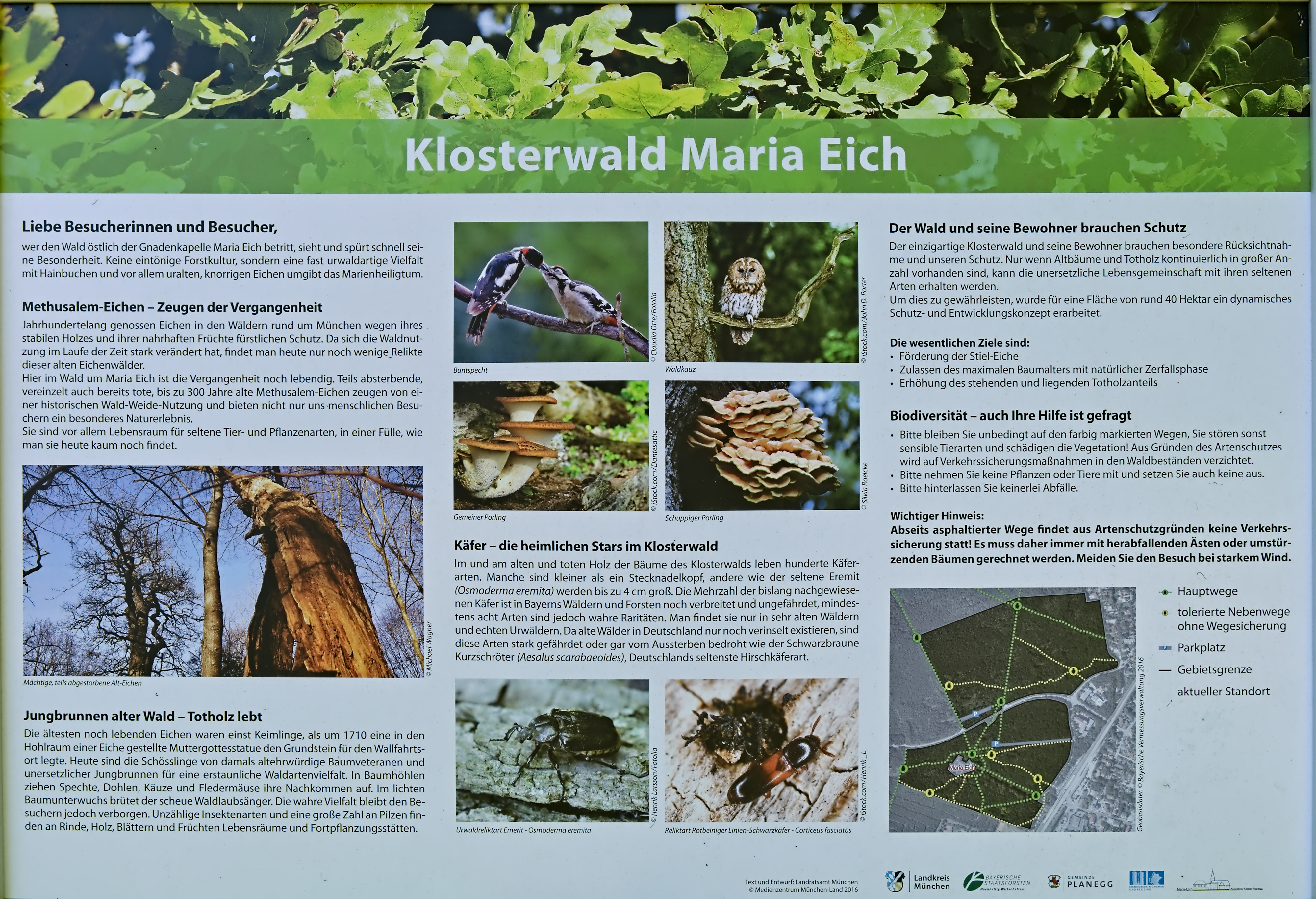 The photo shows one of the public information boards of the monastery forest Maria Eich, Planegg, Germany. This small forest hosts a unique old oak population and a large population od xylobiontic beetles, among them being very rare species. An initiative helps to protect the forest and its inhabitants.